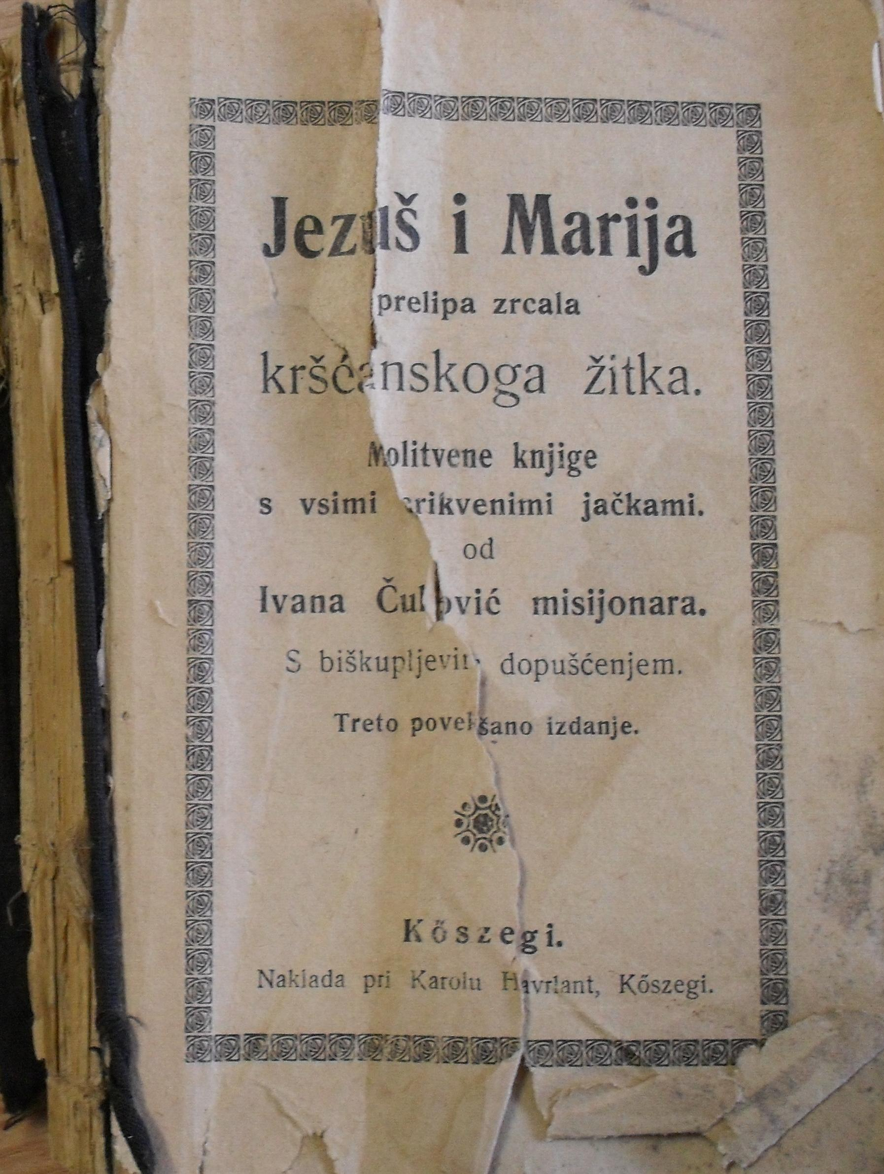 Ivan Čuković: Jezuš i Marija (Jesus and Mary), prayer-book in Burgenland Croatian language from 1916